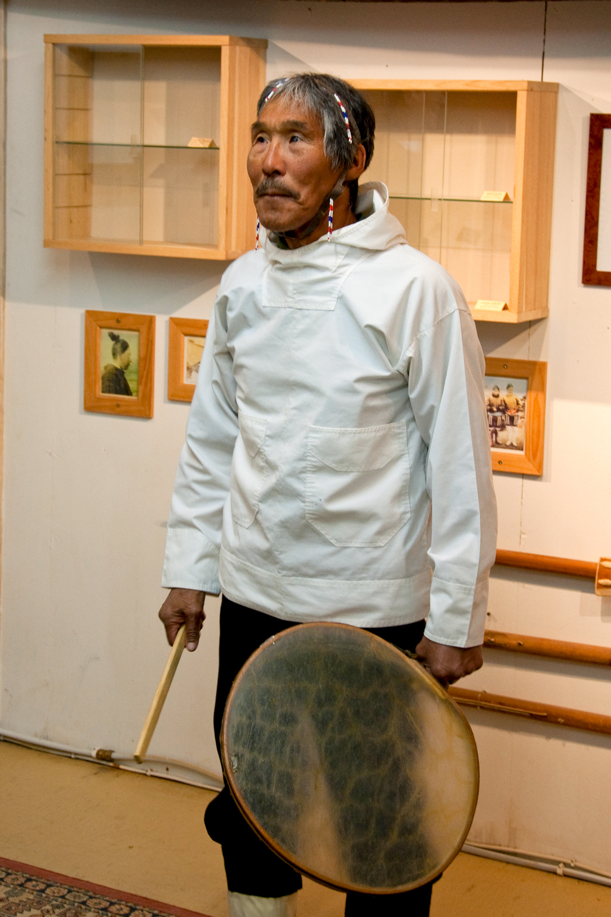 Anda Kuitse, traditional drumdancer and last shaman ( from Kulusuk, Greenland